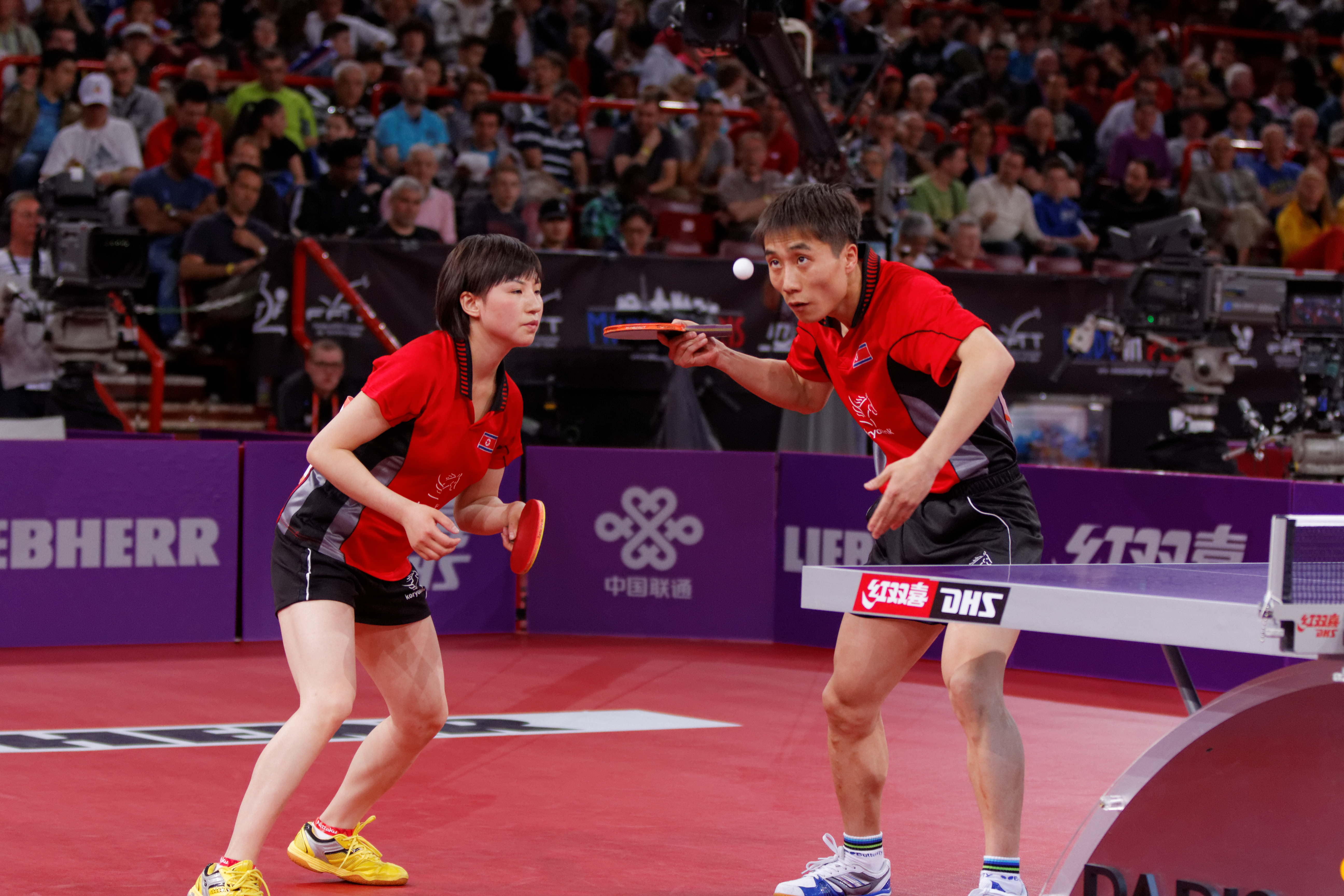 2013 World Table Tennis Championships, Paris. Mixed Doubles Final. Lee Sang-Su and Park Young-Sook vs Kim Hyok-Bong and Kim Jong.